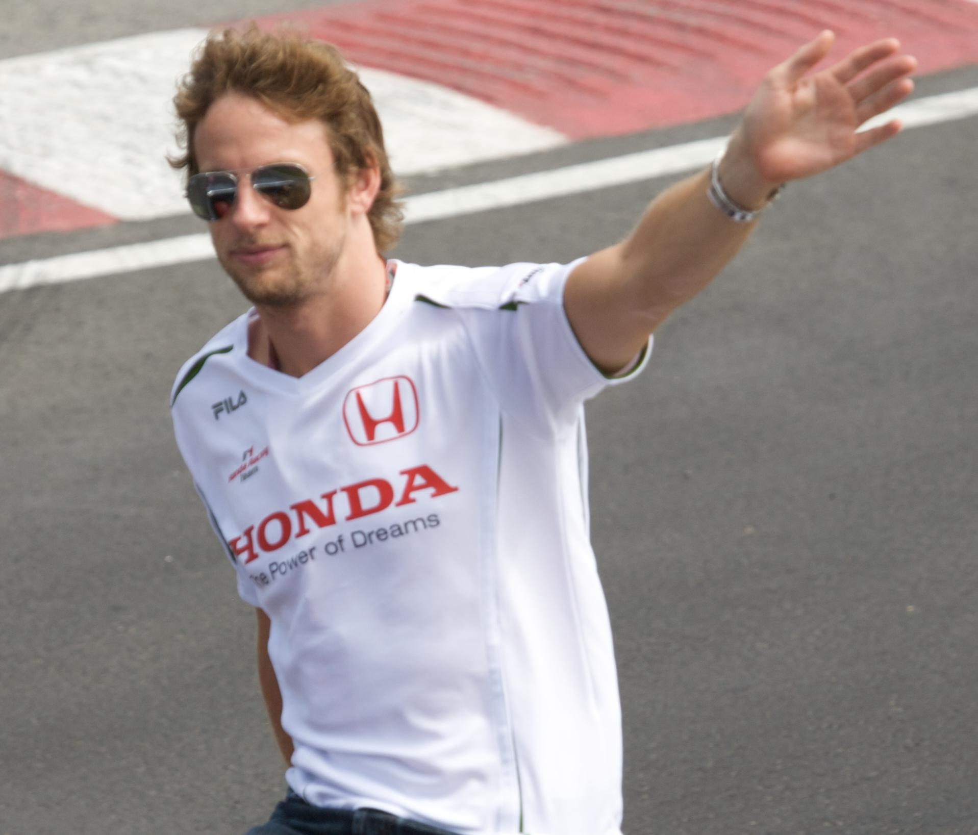 Jenson Button at the 2008 Canadian Grand Prix.